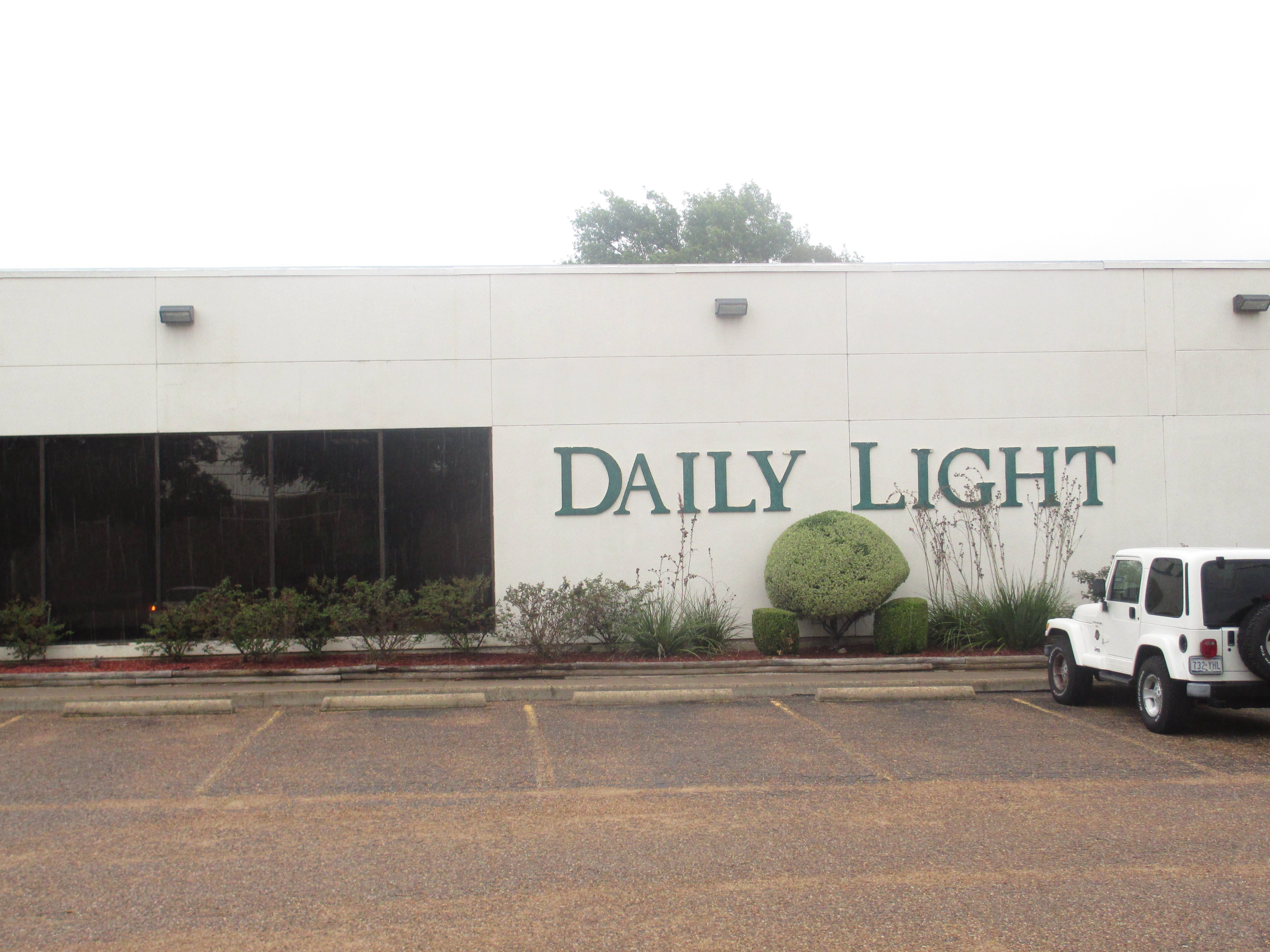 Revised photo of Waxahachie Daily Light newspaper office